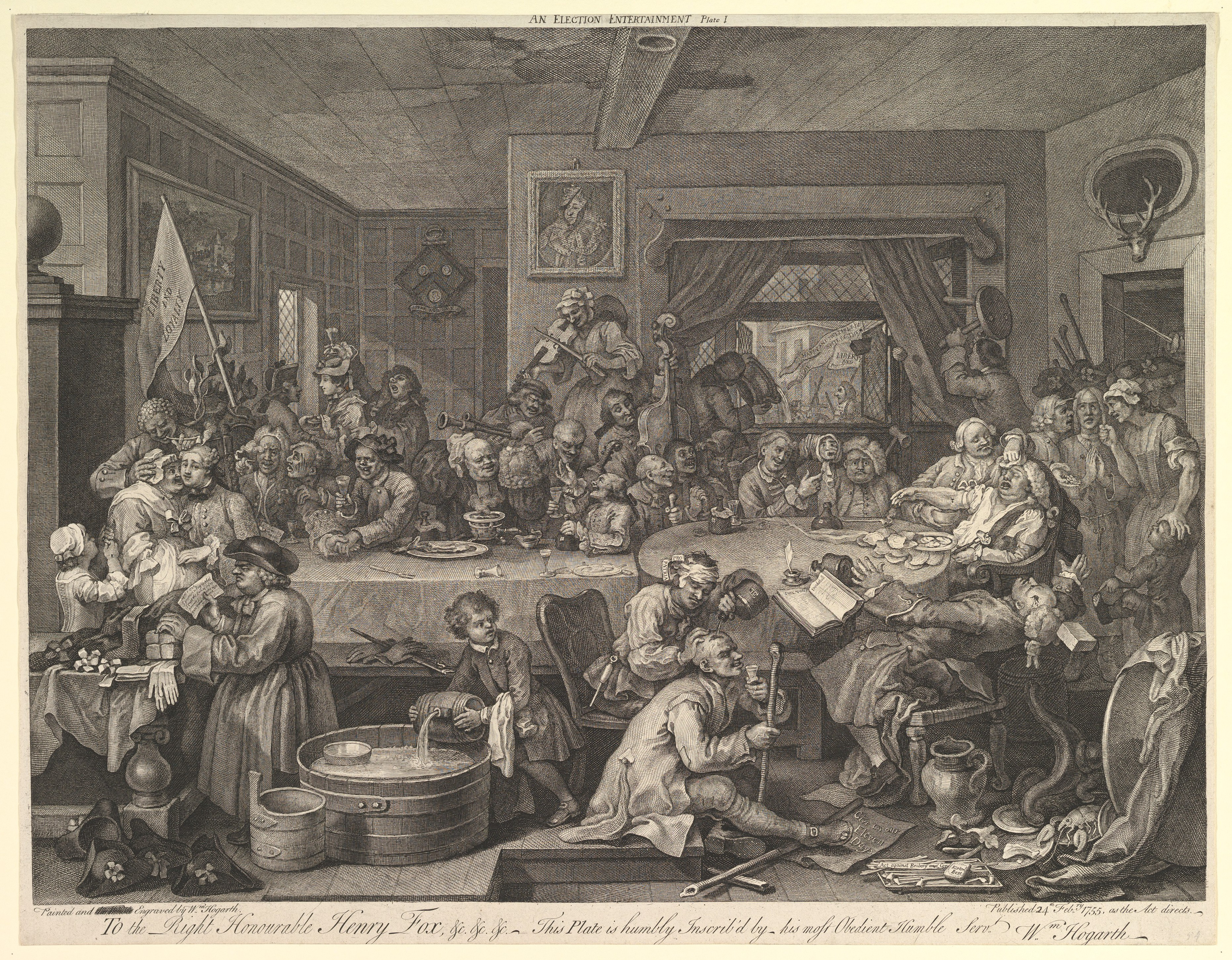 Print; Prints